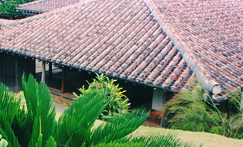 Traditional house of a wealthy family in Okinawa Prefecture. Believed to be Nakamura House, Kitanakagusuku, Okinawa Prefecture, Japan. I took this photo and contribute my rights in the file to the public domain; individuals and organizations retain rights to images in it.